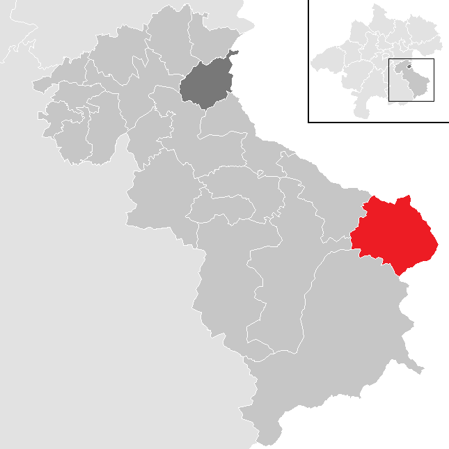 district Steyr-Land